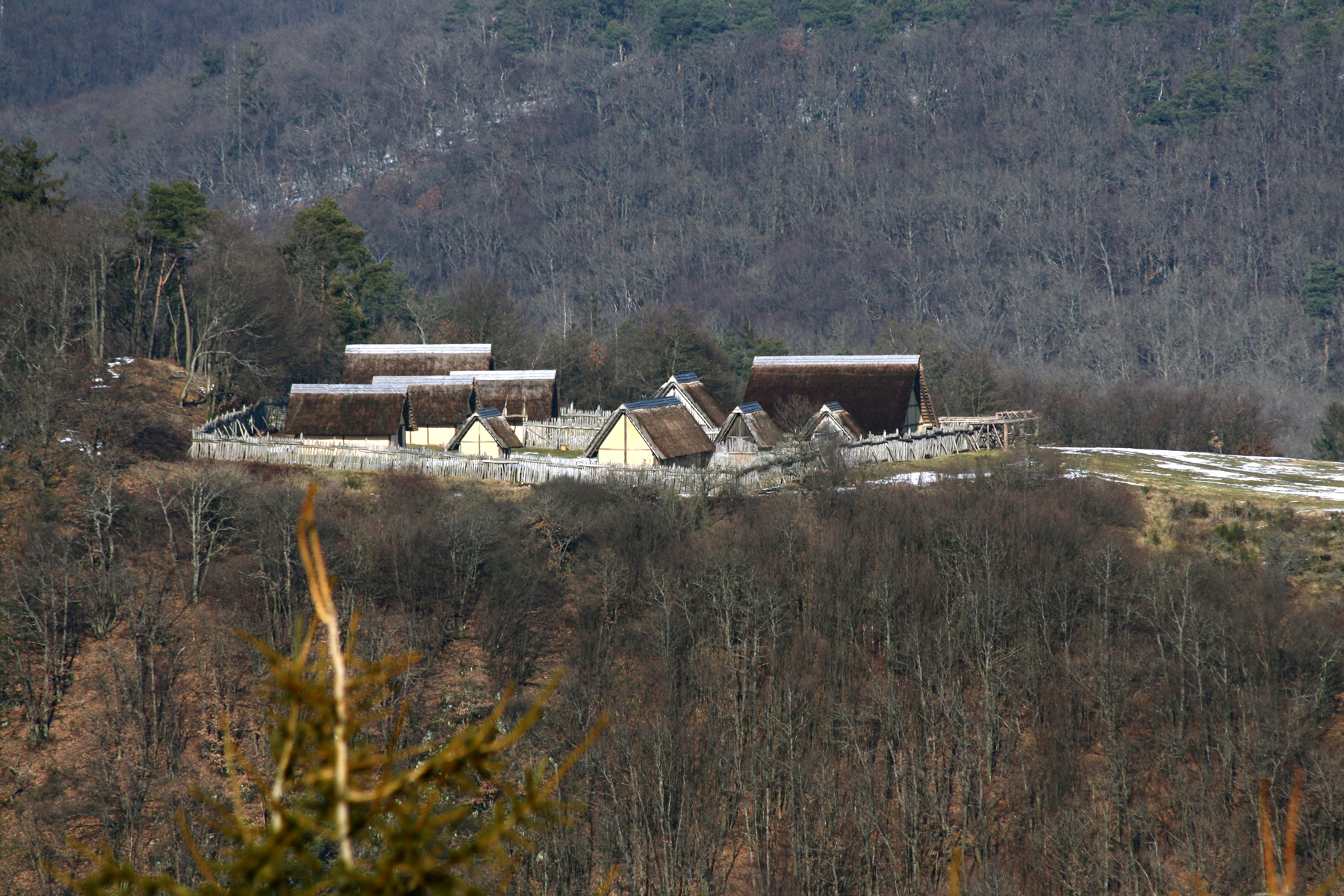 Altburg-Castle.